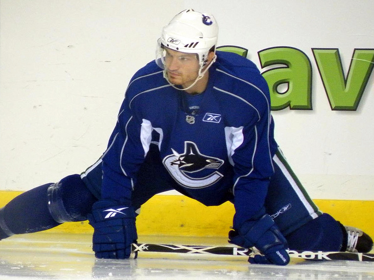 Vancouver Canucks forward Alexandre Bolduc during 2009 training camp.